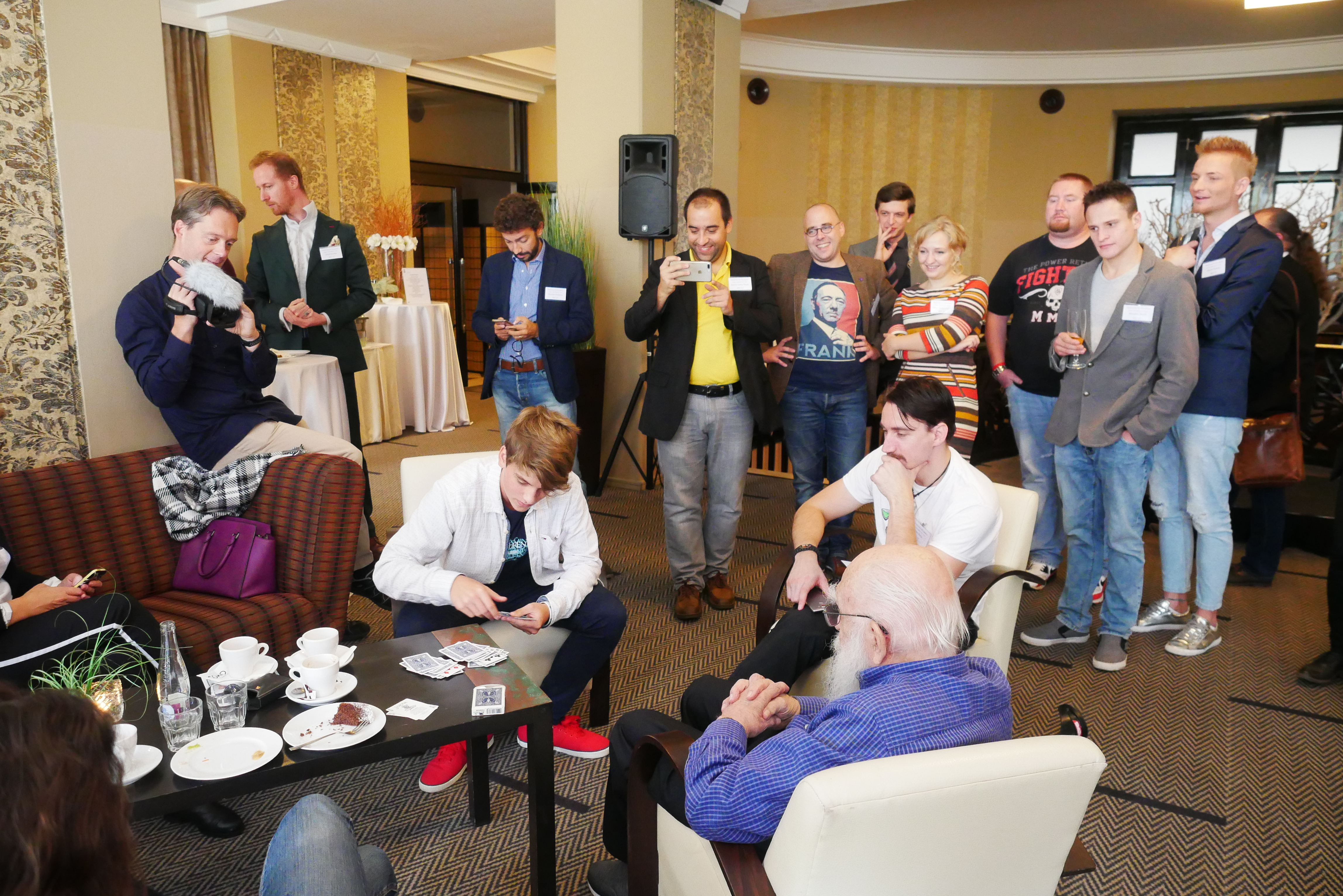 James Randi at the Skepticism for Breakfast event for Czech Skeptics